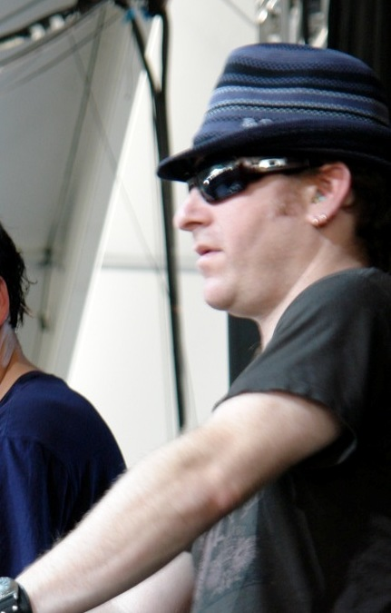 The picture features Josh Gabriel (left) & Dave Dresden (right) at Coachella festival in Palm Springs